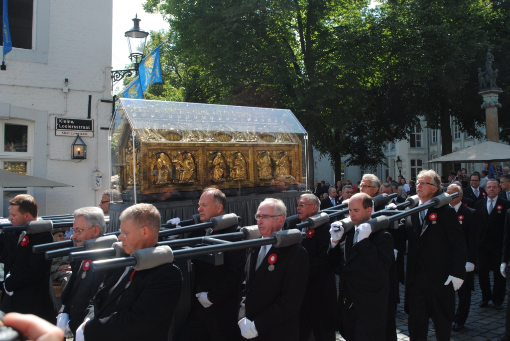 The Noodkist or reliquary casket of Saint Servatius during the seven-yearly Heiligdomsvaart in 2011. Maastricht, the Netherlands.